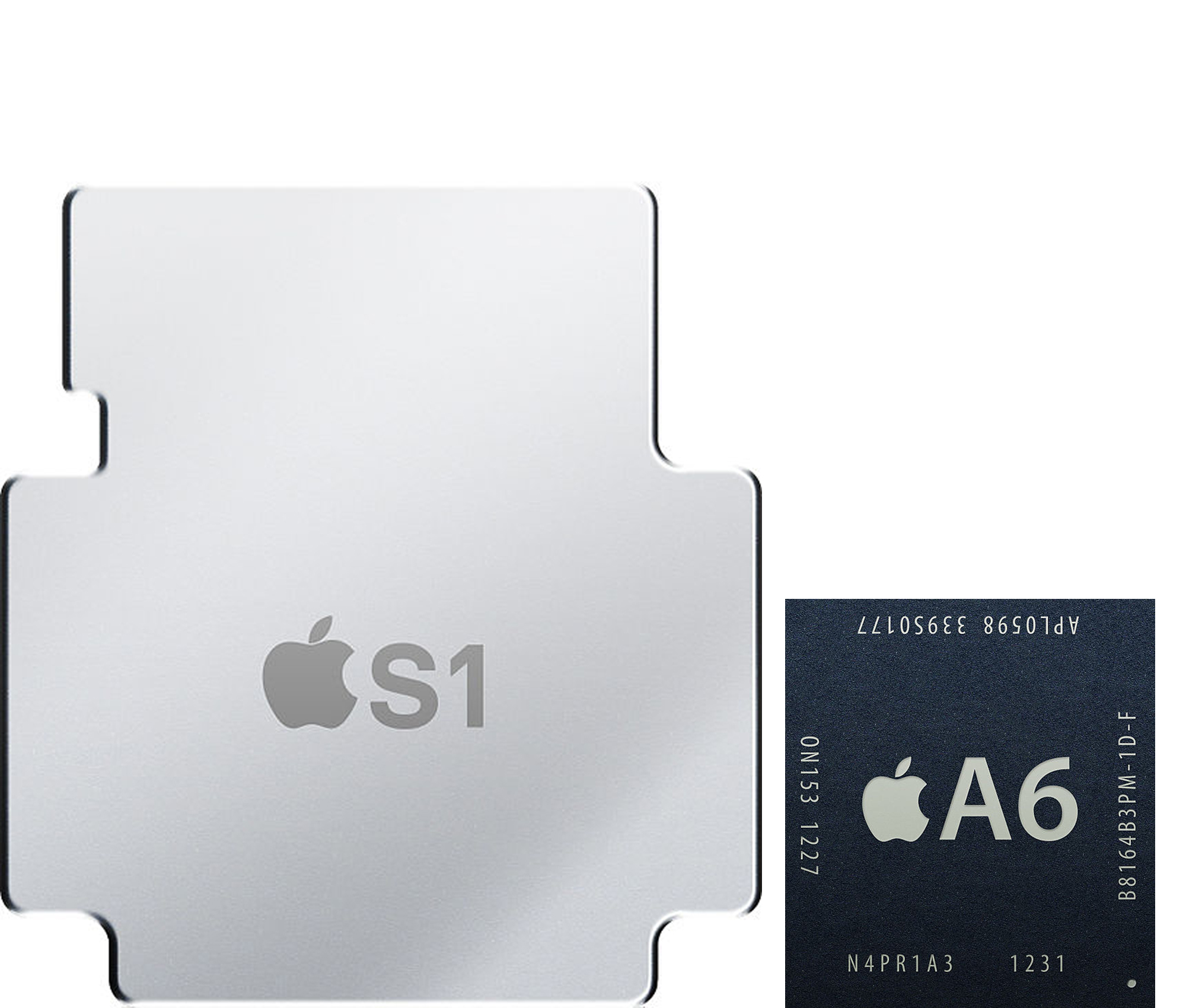 Comparison between Apple S1 and A6